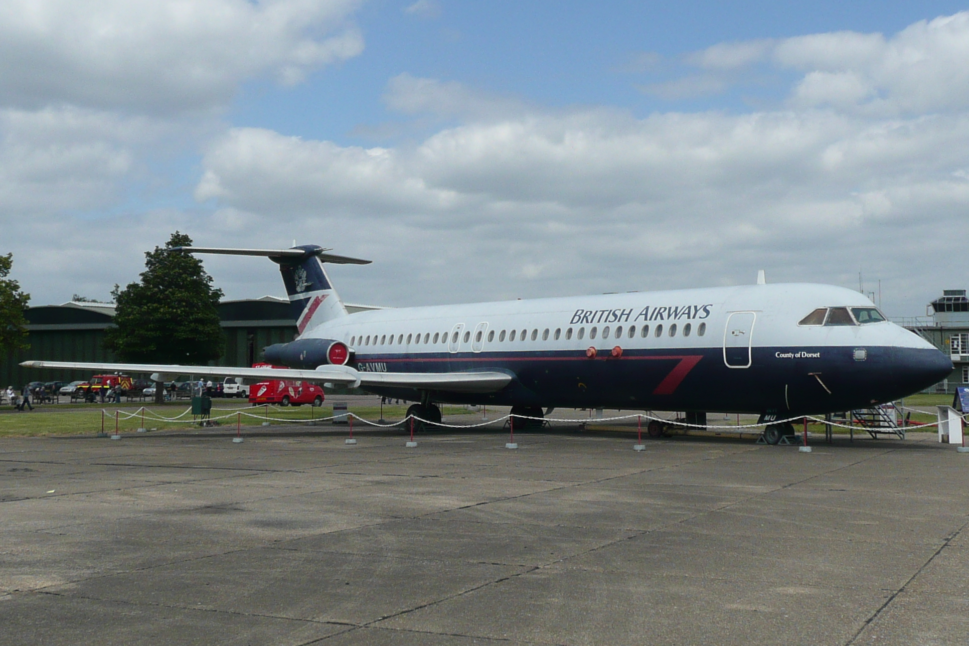 BAC 1-11 510, Imperial War Museum Duxford in Duxford.